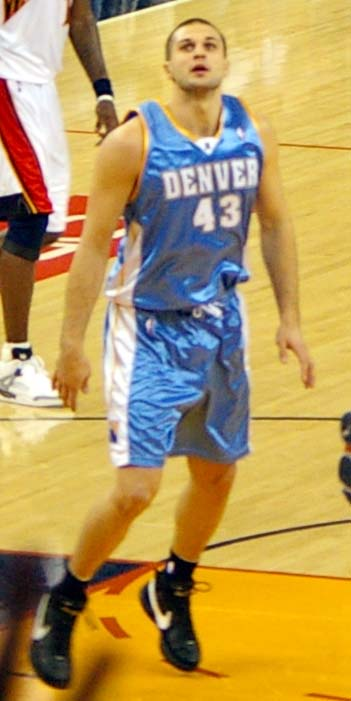 This file has been extracted from another file: LiveDie By the 3.jpg